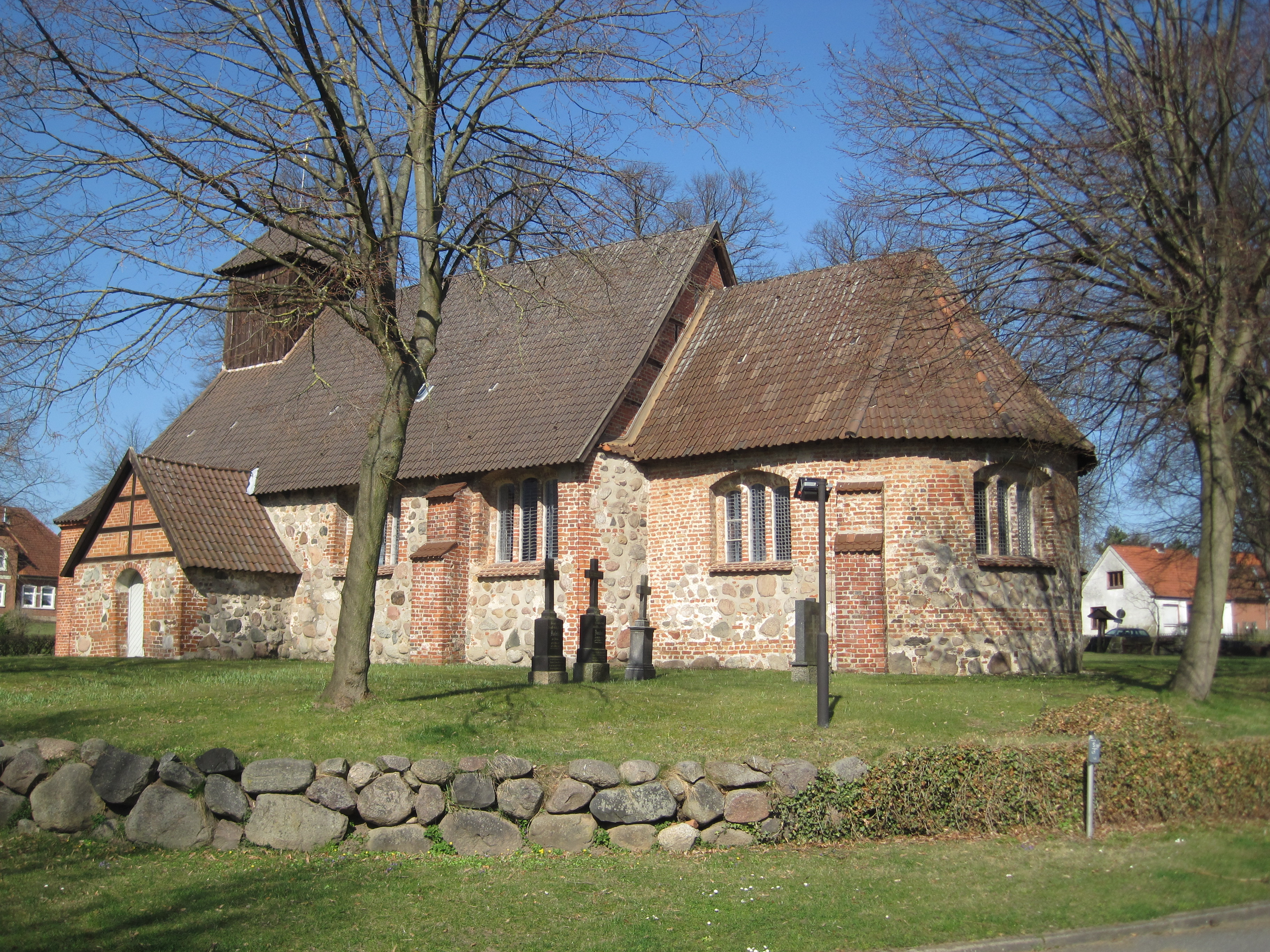 Church in Ziethen (Lauenburg)